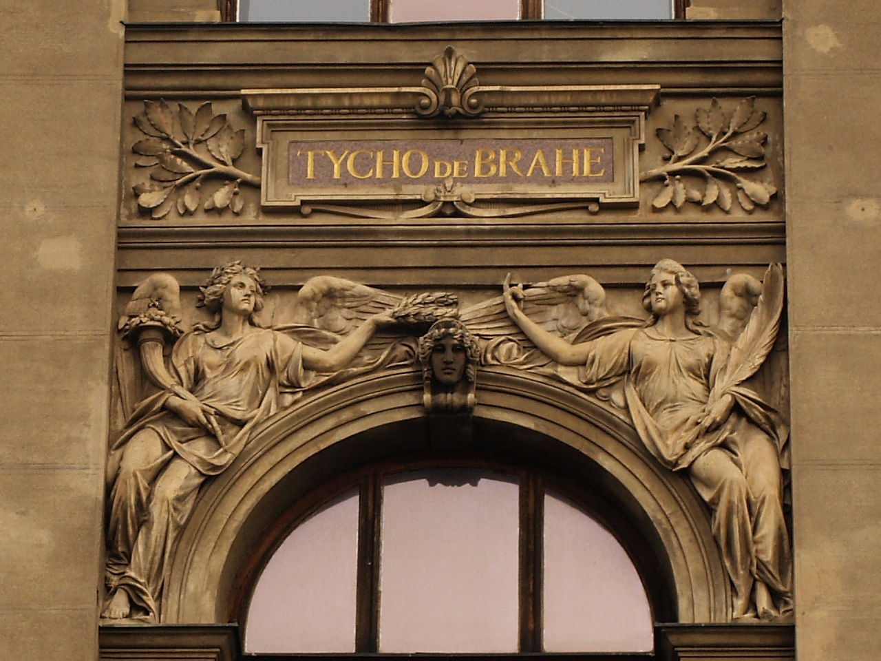 Name of Danish astronomer Tycho Brahe inscribed in the facade of National Museum (Prague)